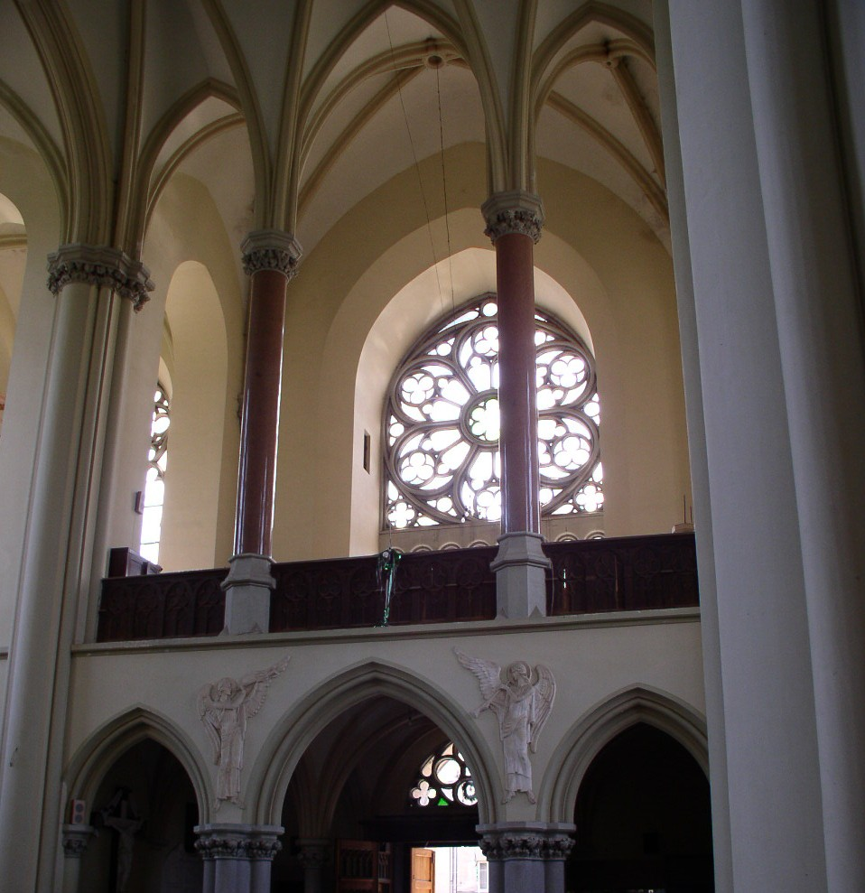 Greek-Catholic Church of Saints Olga and Elizabeth. Lviv, Ukraine